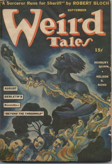 Cover of the pulp magazine Weird Tales (September 1941, vol. 36, no. 1) featuring Beyond the Threshold by August W. Derleth. Cover art by Margaret Brundage.